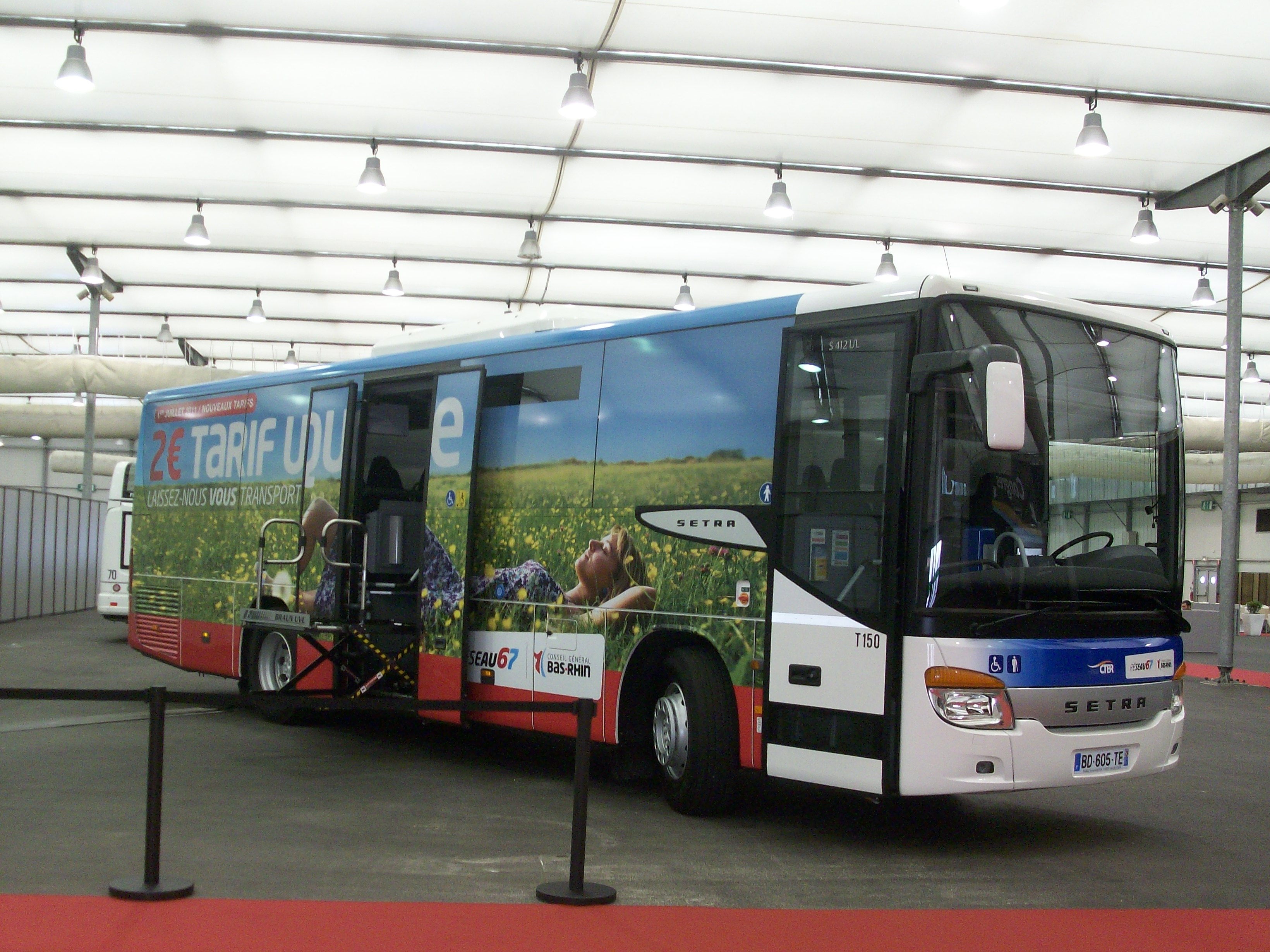 Setra S 412 UL bus (reg. BD-605-TE, #T150) in Strasbourg, France. Compagnie des Transports du Bas-Rhin (CTBR) from Strasbourg operator. RNTP 2011.